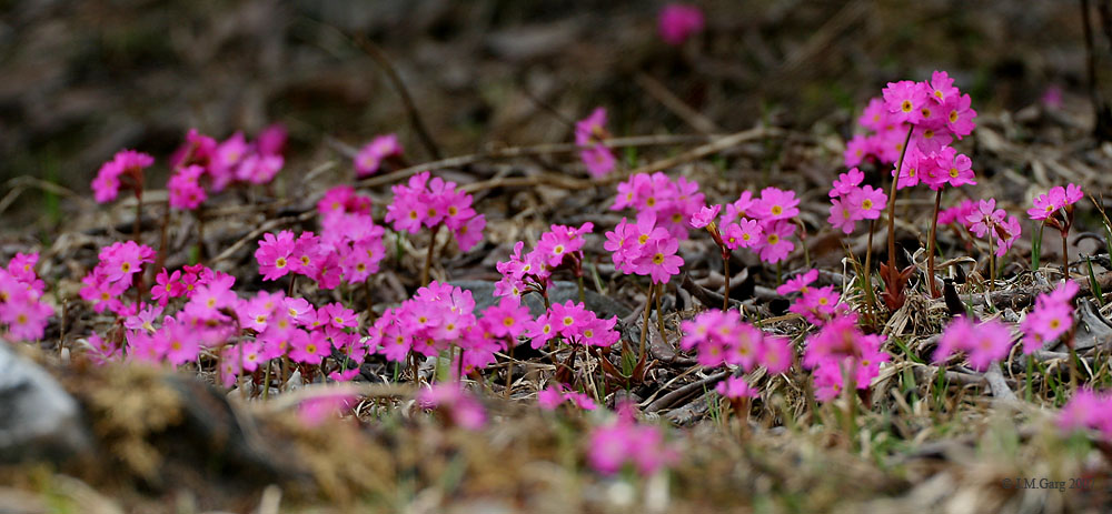 Himalayan Meadow Primrose Primula rosea in Kullu District of Himachal Pradesh, India.